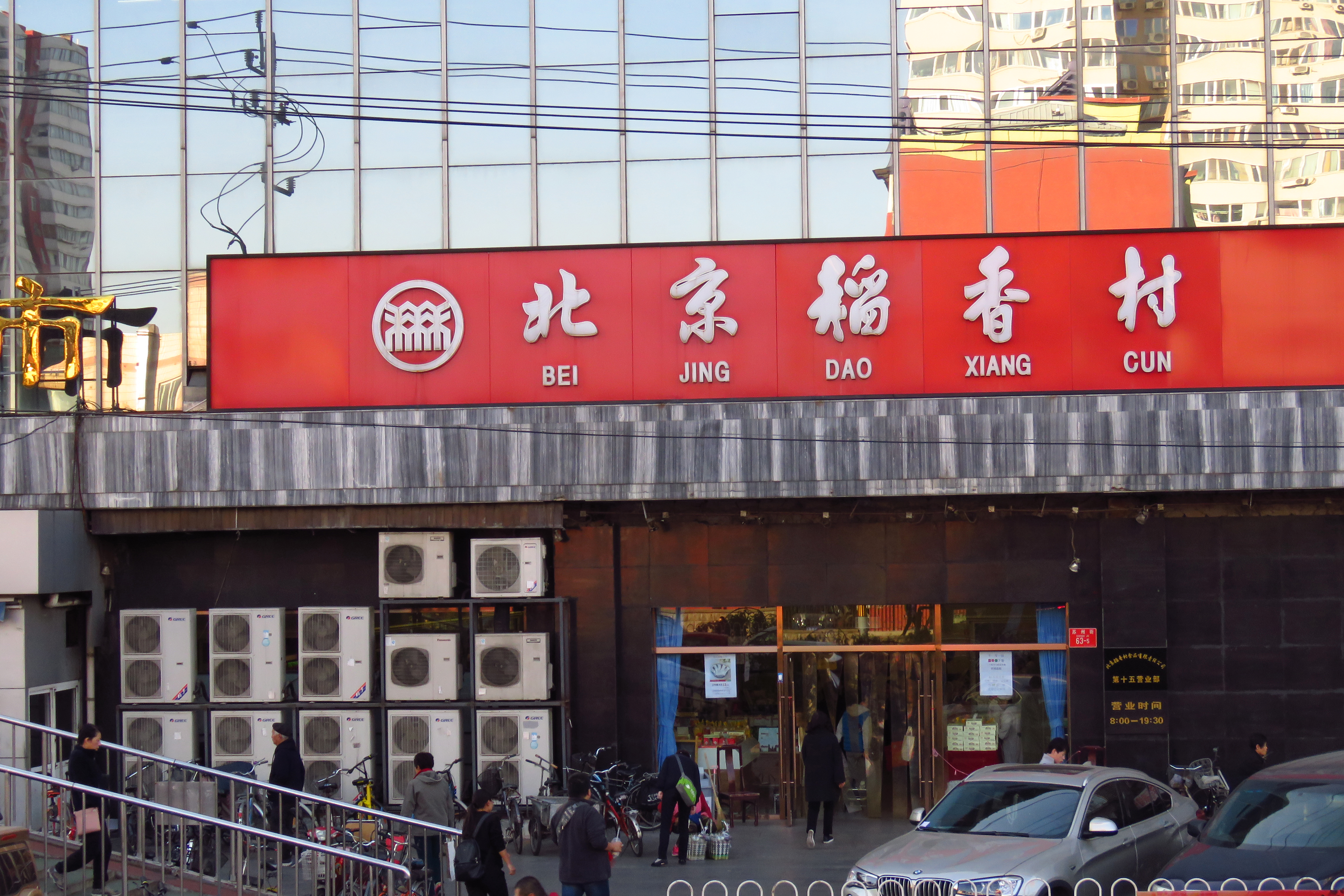 With "Sanhe" markings.